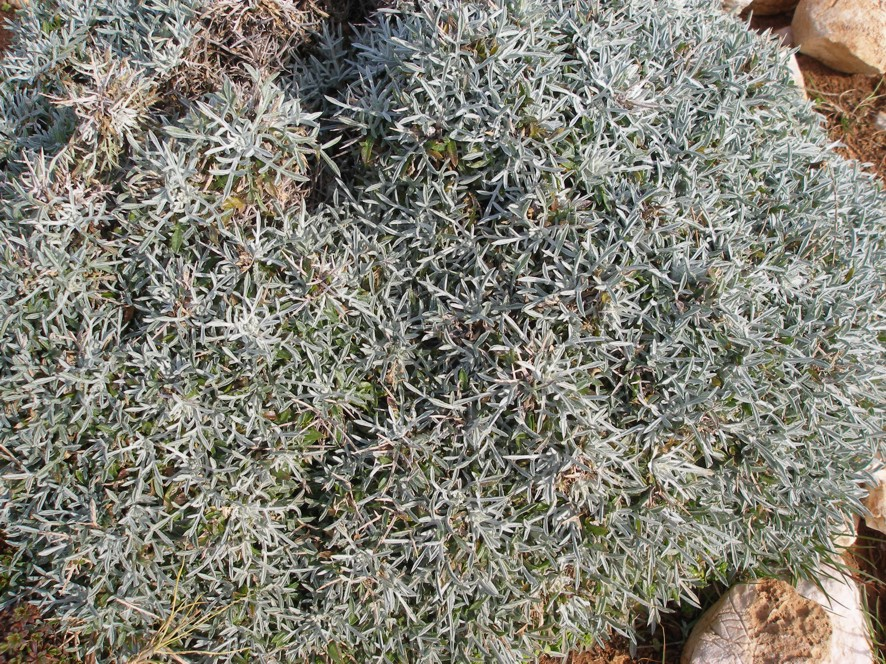 Description Leaves of Centaurea horrida Author Marco Busdraghi